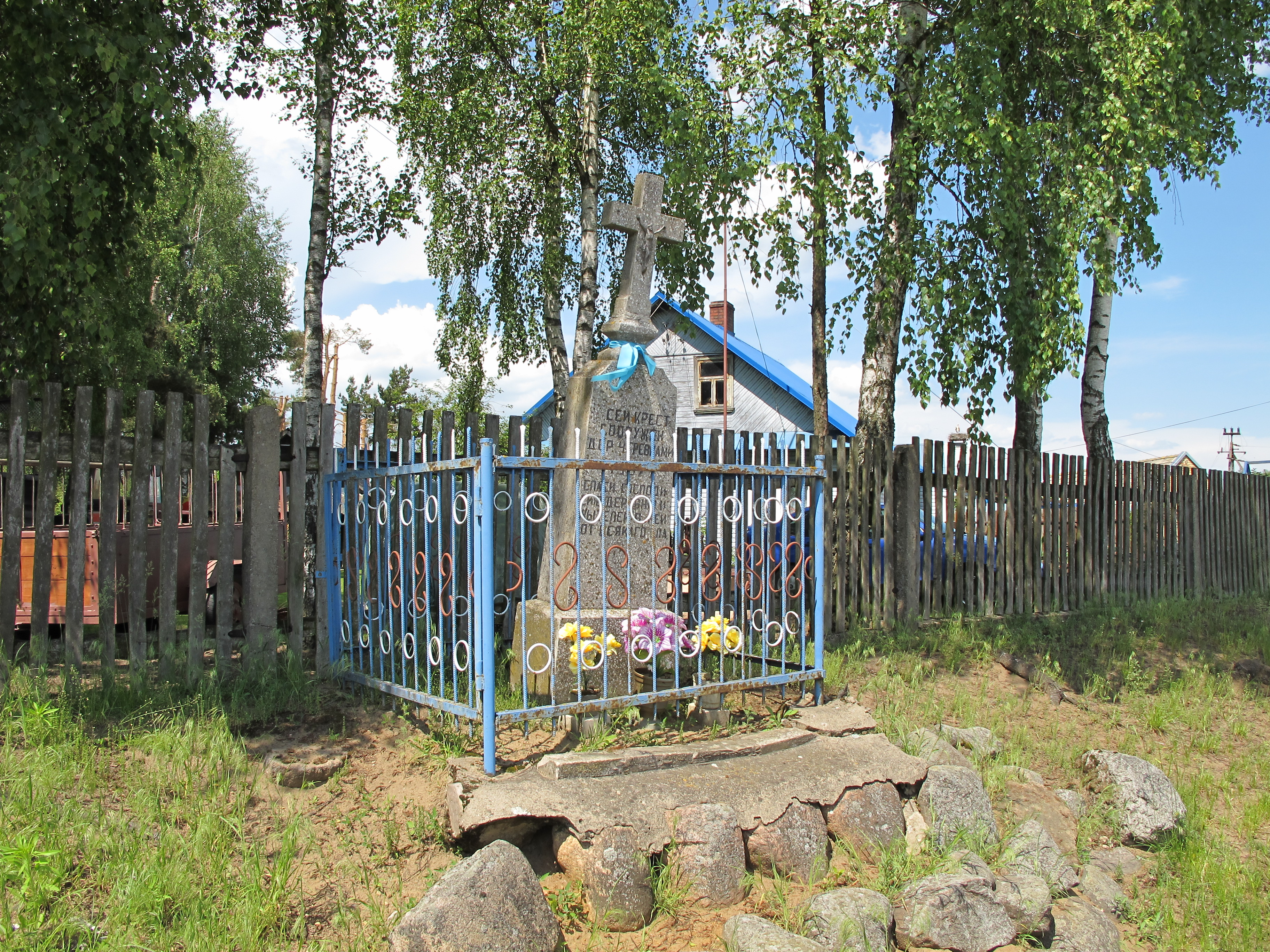 Cross at Czerewki village, gmina Juchnowiec Kościelny, podlaskie, Poland